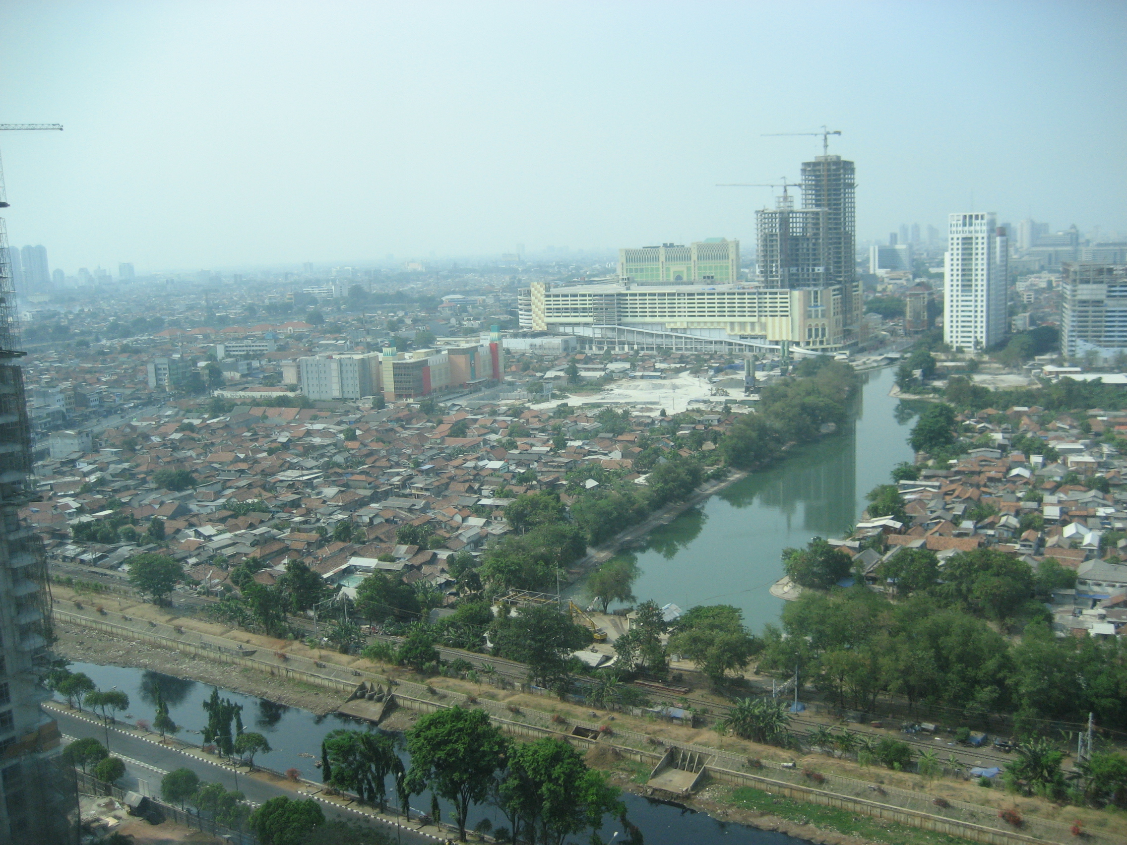 Jakarta town view from Shangli-la hotel